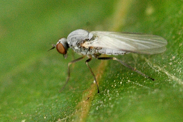 Picture taken in Commanster, Belgian High Ardennes . Species: Hilara litorea